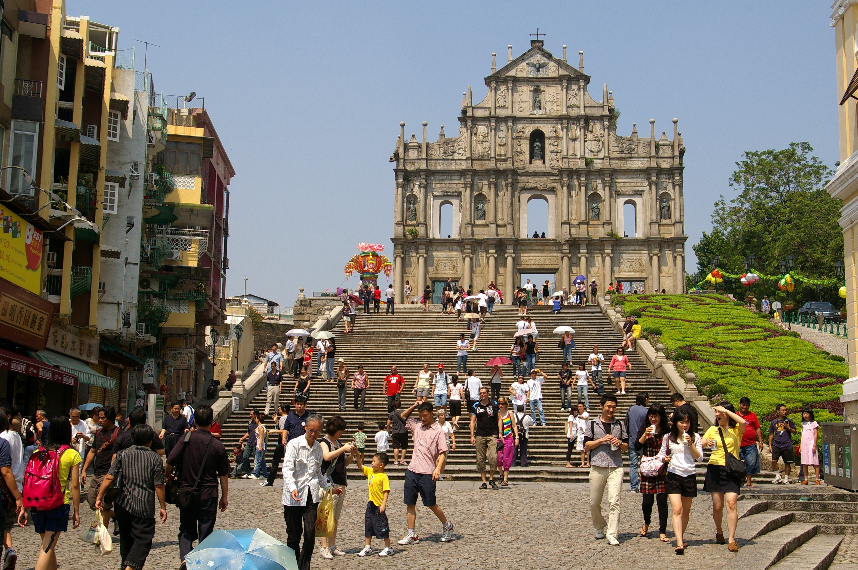 Ruins of St. Paul's Cathedral in Macau